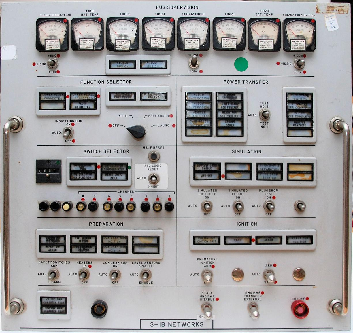 S-IB Networks control panel. Salvaged from one of the Kennedy Space Center (KSC) Launch Control Center Firing Rooms after completion of the Apollo-Soyuz Test Project (ASTP) in 1975. This panel monitored the state of the electrical bus communications within the Apollo S-IB rocket. The panel is shown as it was before it was restored, i.e., after being in storage for 34 years.